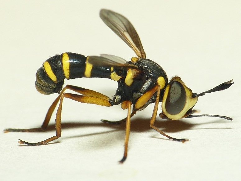 Hybomitra ciureai, location: The Netherlands - Rhenen - Blauwe Kamer - Gelderland